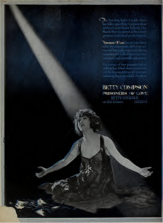 Ad with Betty Compson in Prisoners of Love (1921), directed by Arthur Rosson.